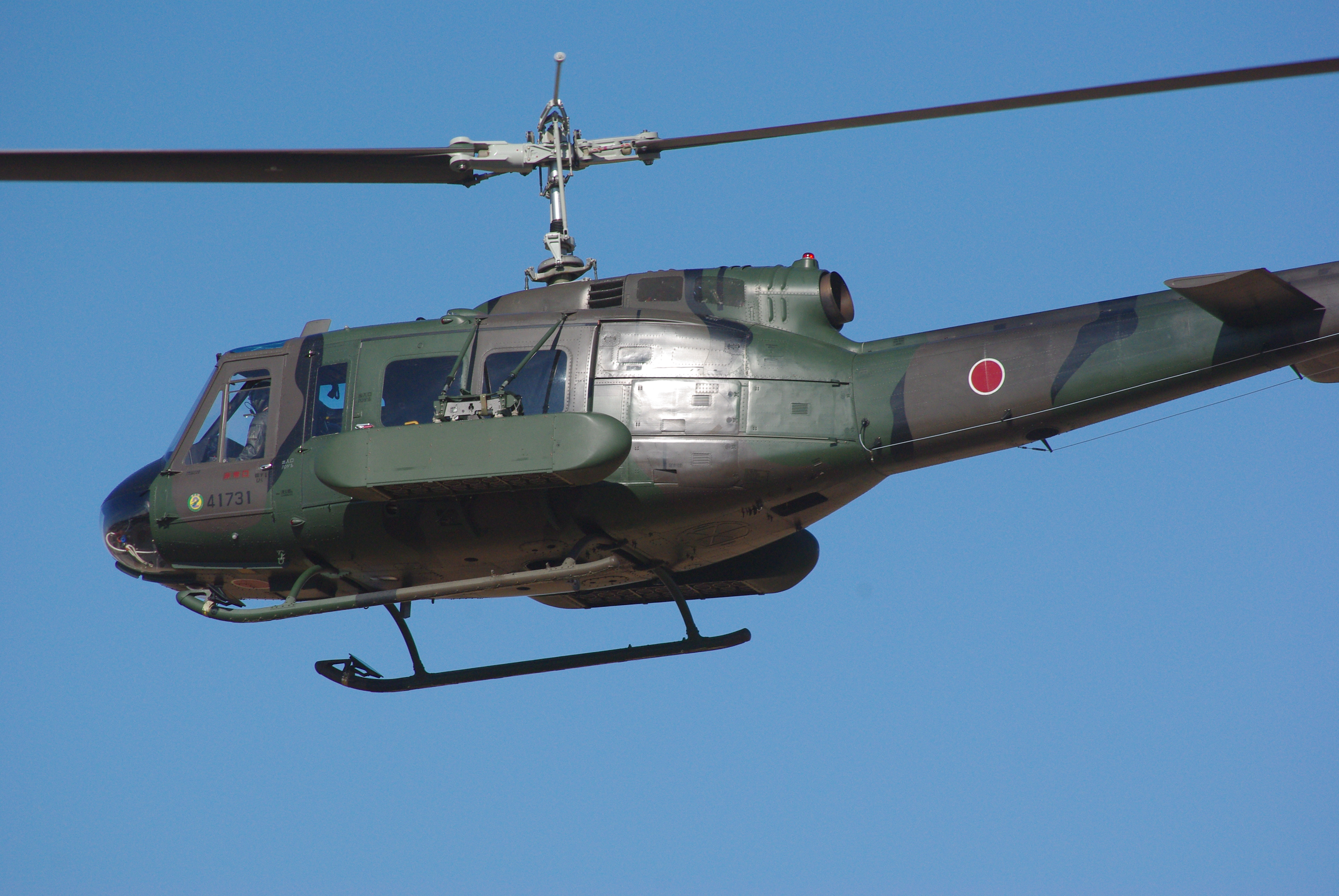 JGSDF UH-1H & Type87 mine dispenser.Taken by Los688,in Narashino,Japan,at 08-Jan-2012,JGSDF 1st Airborne Brigade 2012 first drop manuver.PD-self 陸上自衛隊 東部方面ヘリコプター隊UH-1Hヘリとヘリ側面に87式地雷散布装置 2012年01月08日、習志野演習場でLos688が撮影。